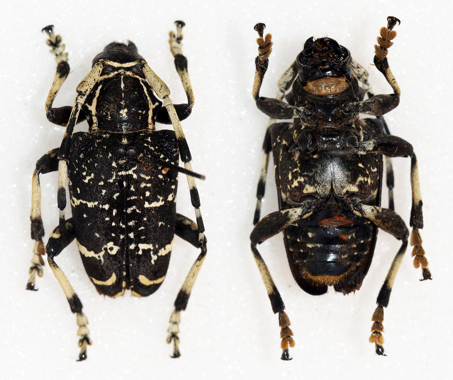 Waterhouse,1878 Sex: Female Data: 30-12-07 - 100km South Antananarivo - Marizivu - Madagascar Size: 20mm